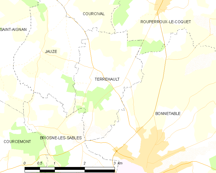 Map of French municipality